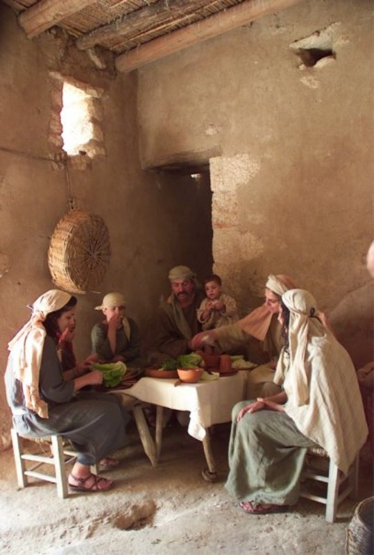 Nazareth Village, Geography of Israel